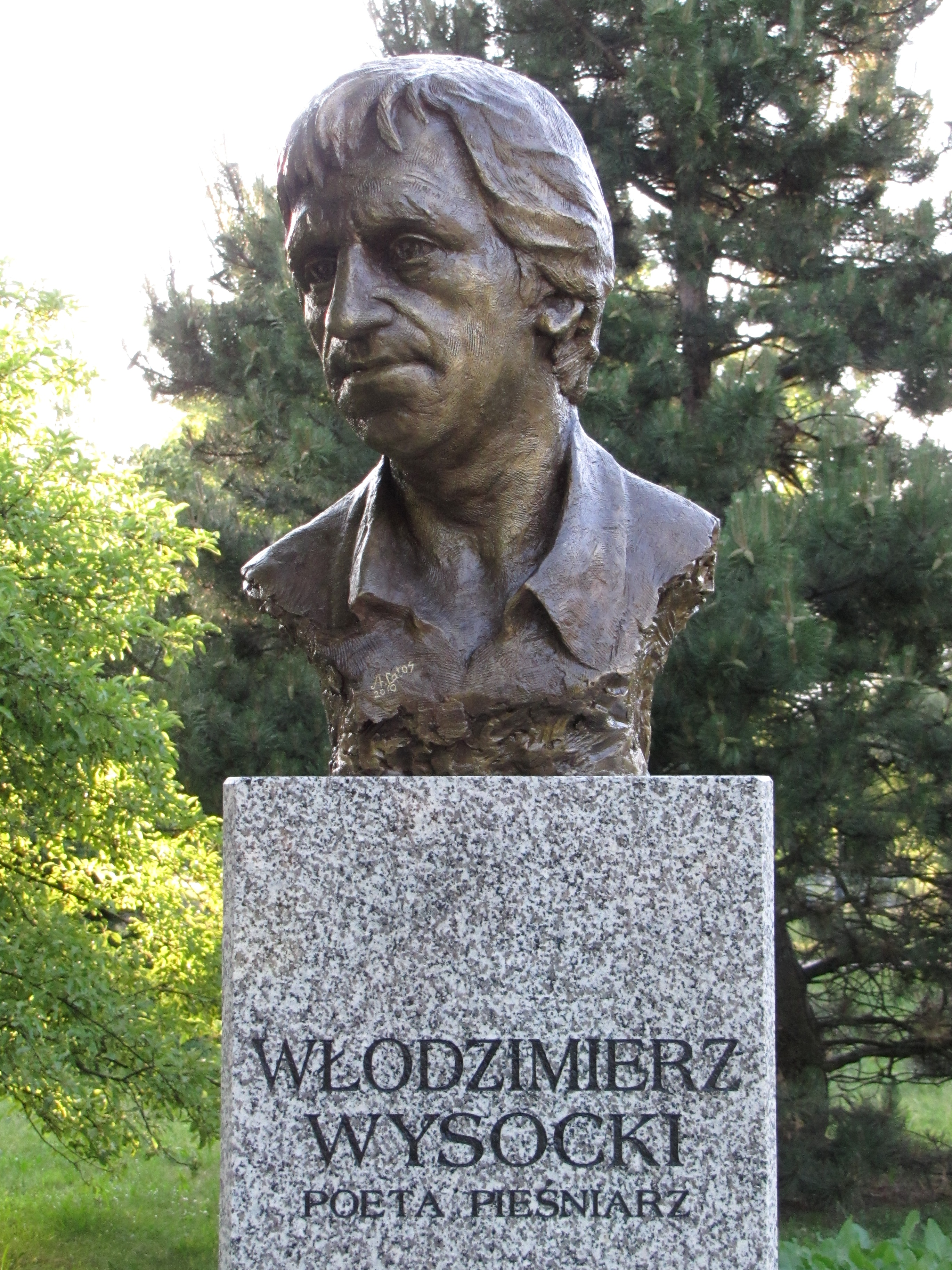 Bust of Włodzimierz Wysocki in Celebrity Alley in Kielce (Poland)